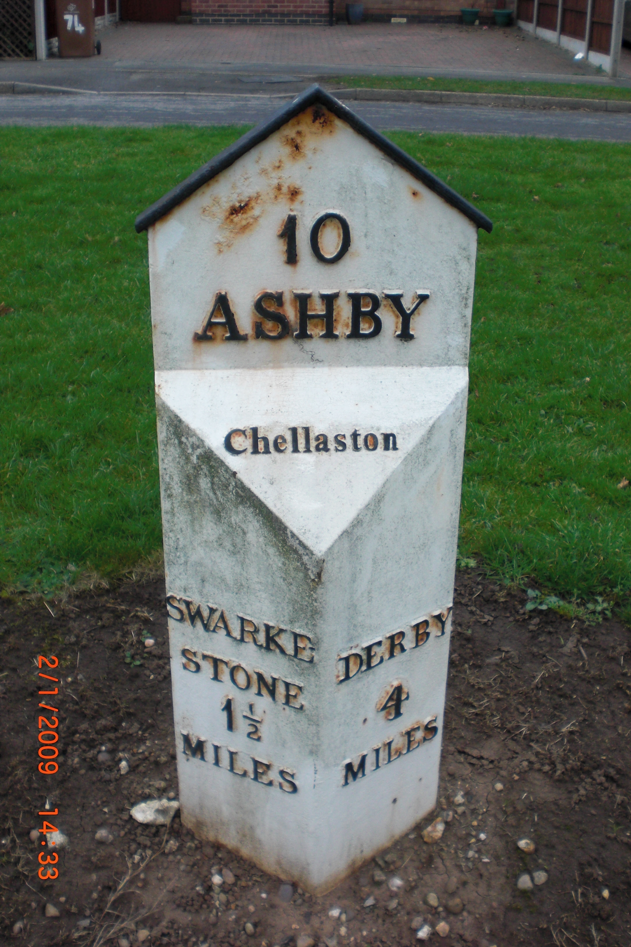 Chellaston milestone, Derby Road, Chellaston